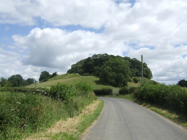 Caus Castle Ruined Norman castle on the site of an ancient hill fort in the Welsh Marches. The castle was demolished during the Civil War and the medieval village abandoned.